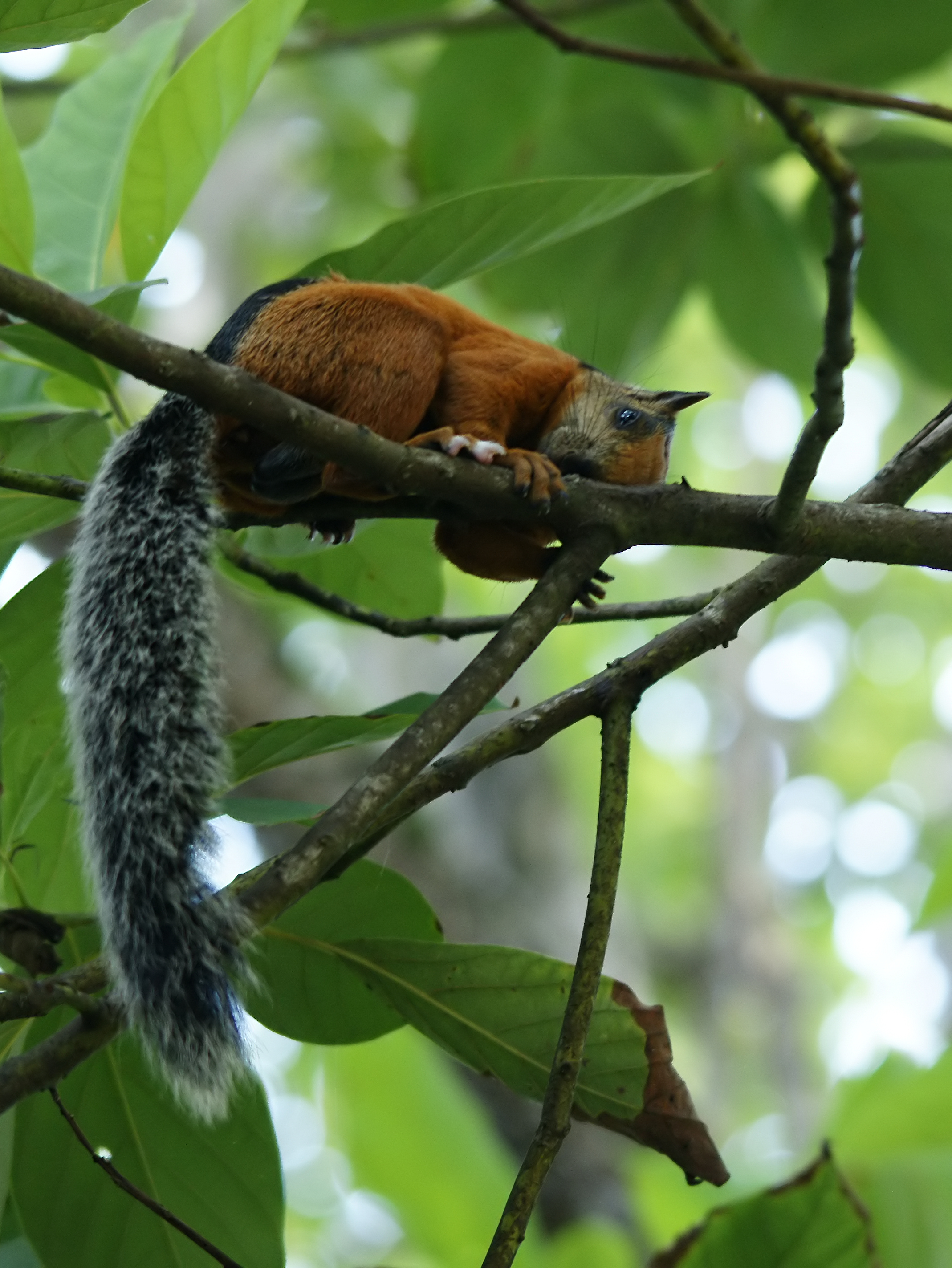 Variegated Squirrel at Montezuma, Nicoya Peninsula, Costa Rica.